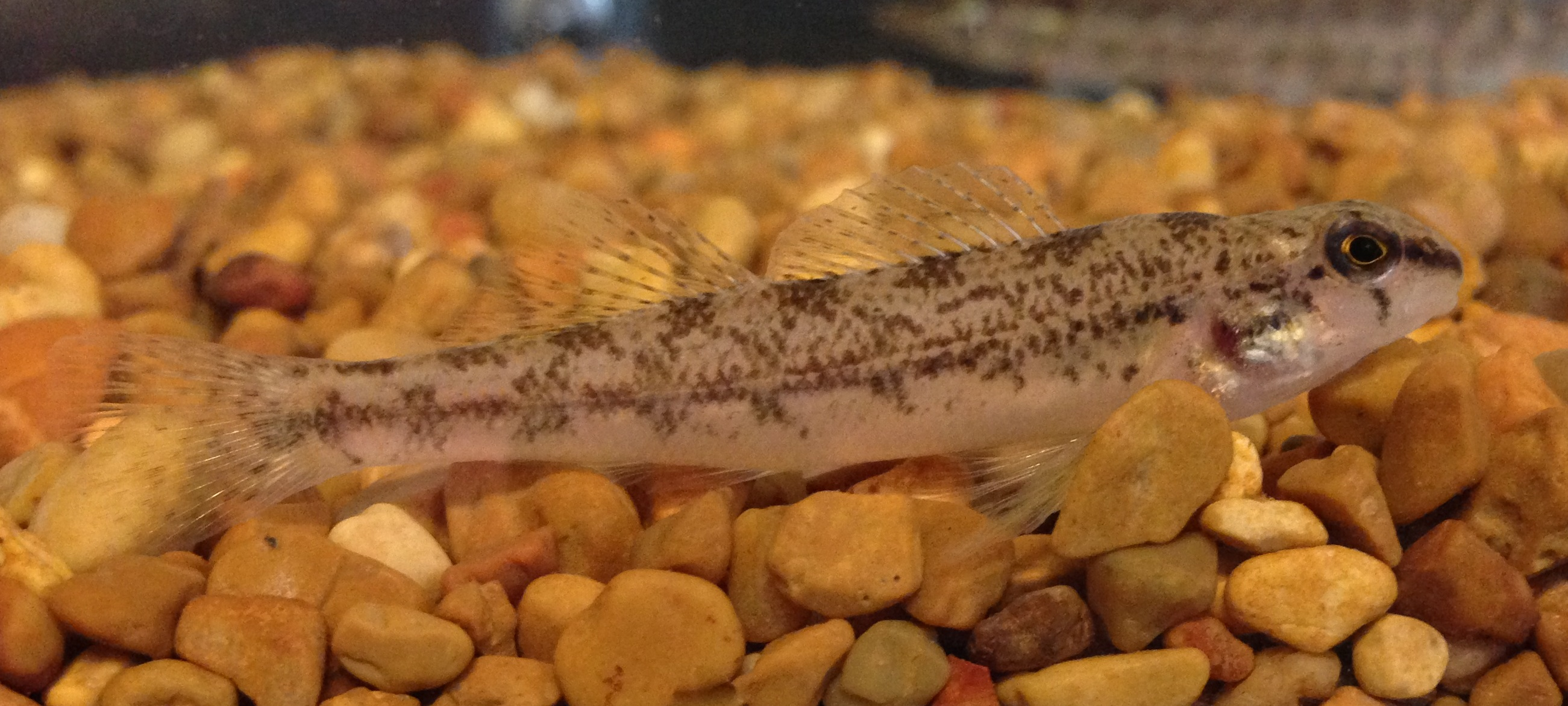 An adult female Yazoo darter (Etheostoma raneyi) at the University of Mississippi Field Station.